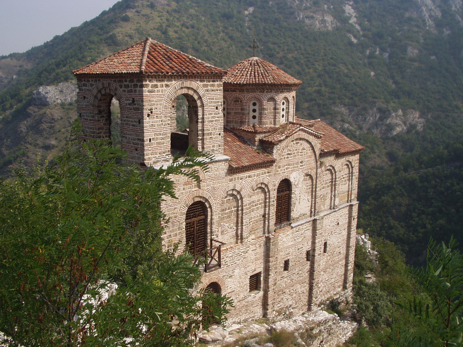 Asenova fortress, Bulgaria